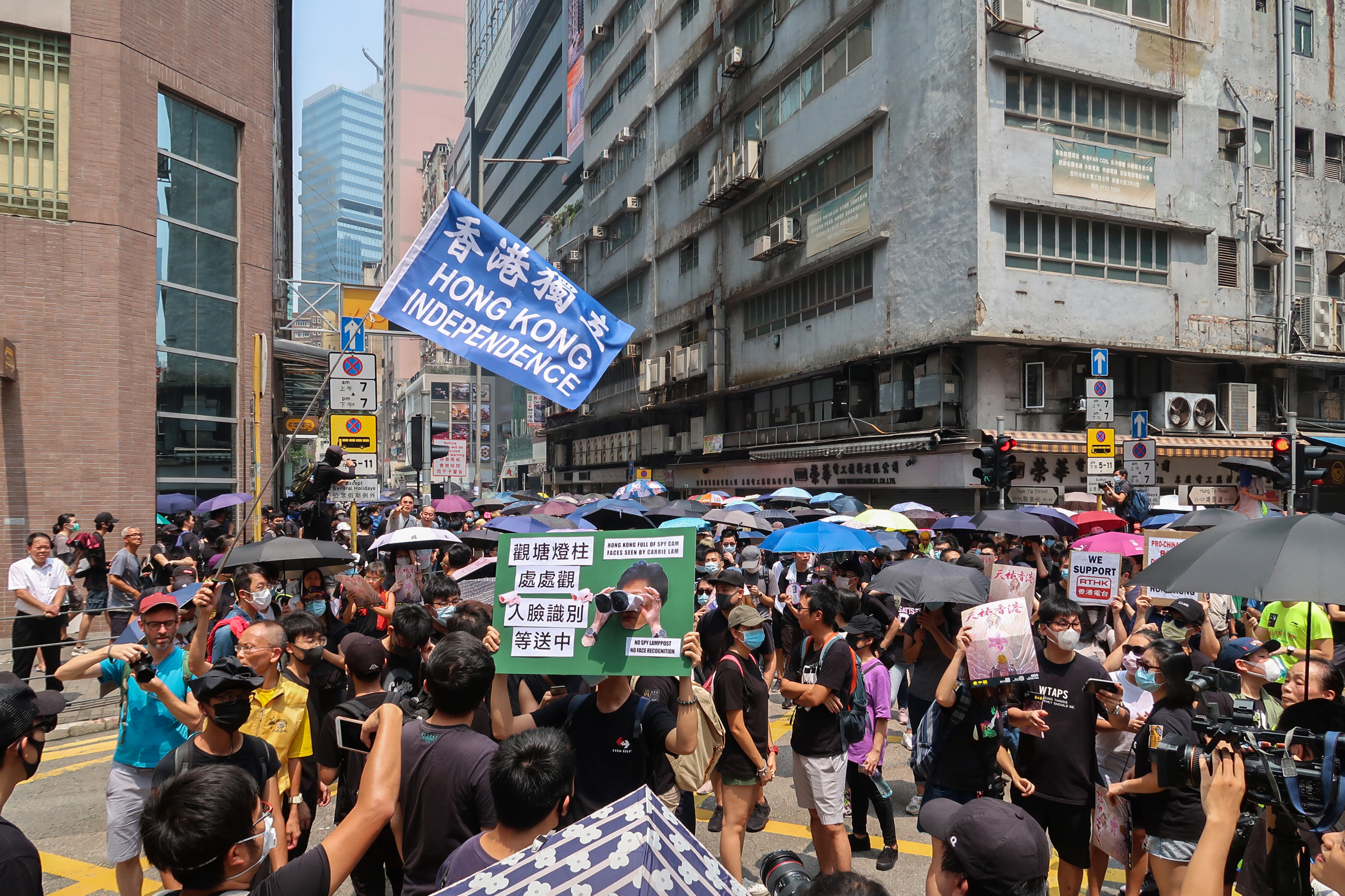 Hung To Road Protesters